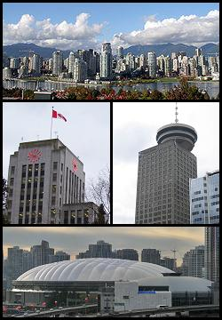 Montage of Vancouver images. From top to bottom left to right: Downtown Vancouver Vancouver City Hall Harbour Centre BC Place Stadium and General Motors Place